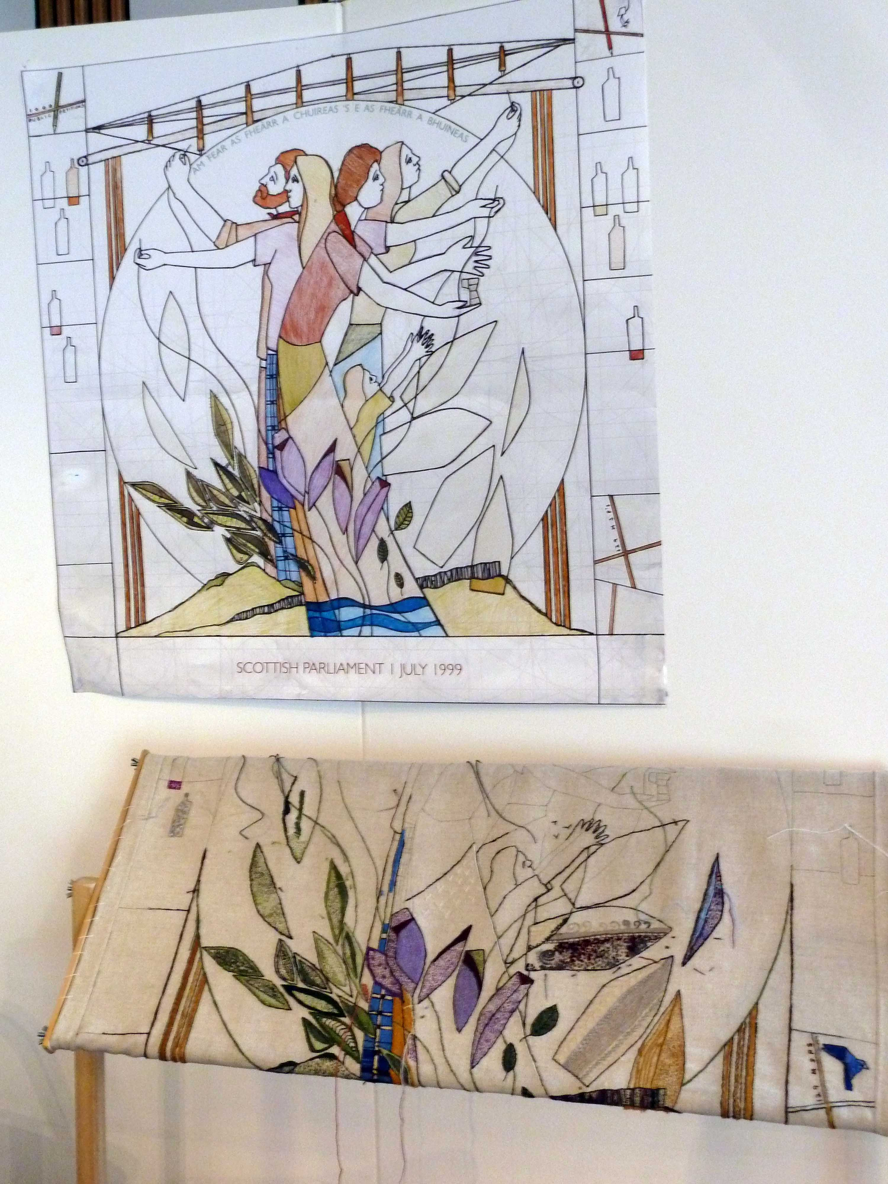 The Great Tapestry of Scotland: People's Panel designed by Andrew Crummy, being stitched by visitors to the exhibitions, started in August 2014 to be presented to the Scottish Parliament on completion.